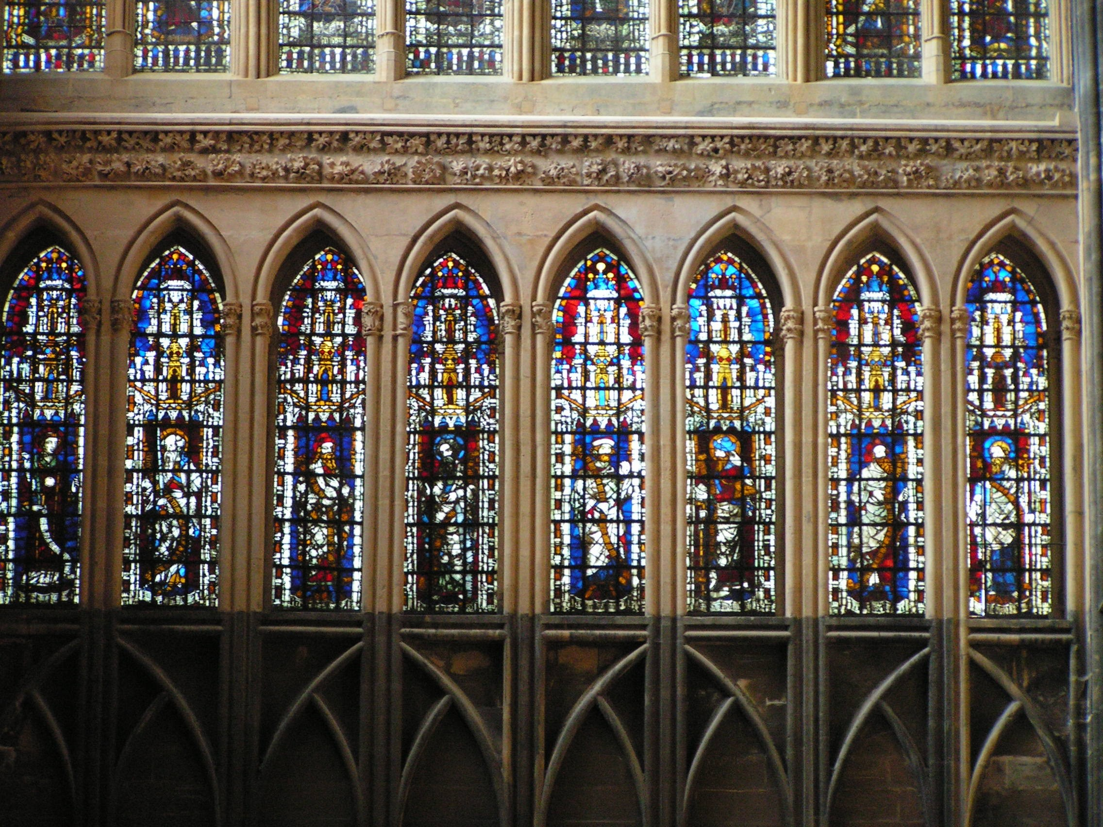 The St. Stephen's Cathedral of Metz (France)